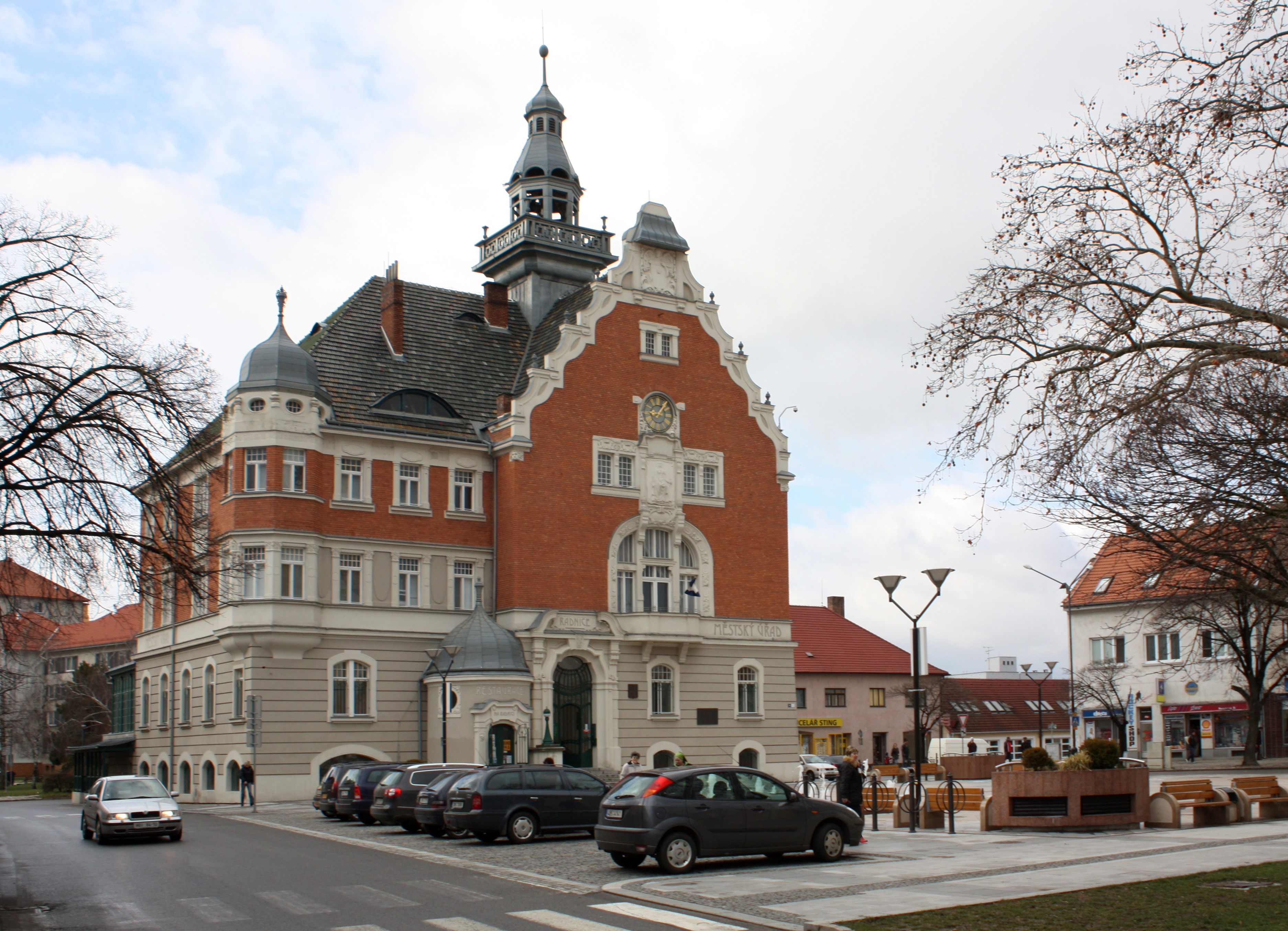 Town hall in Hodonín, Hodonín district, Czech Republic